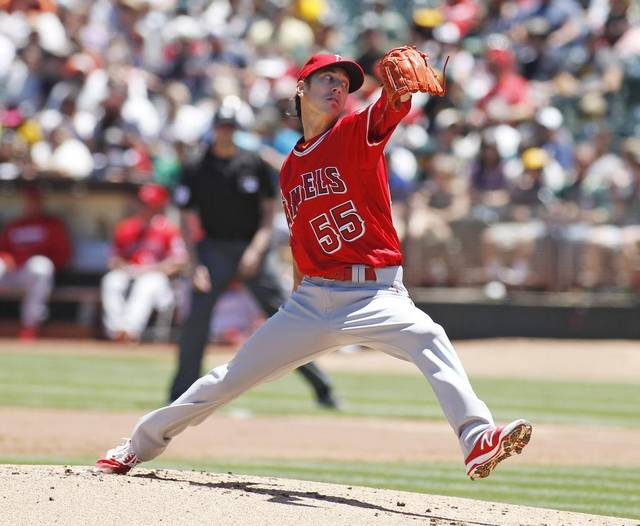 Tim Lincecum lanzando para los Angels